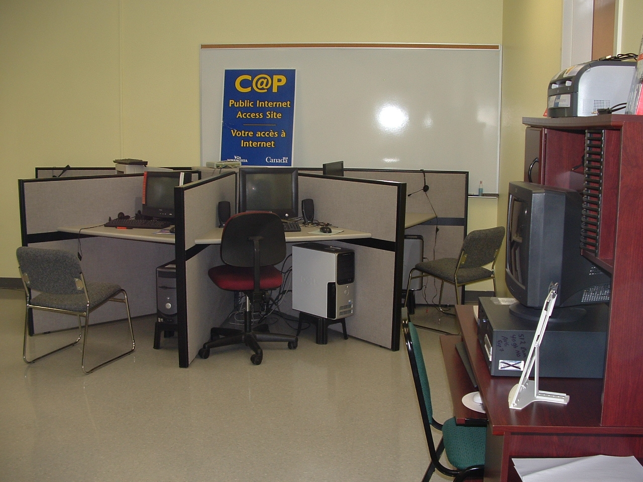 La Picasse C@P site is a member of the Réseau acadien des sites P@C de la Nouvelle-Écosse.